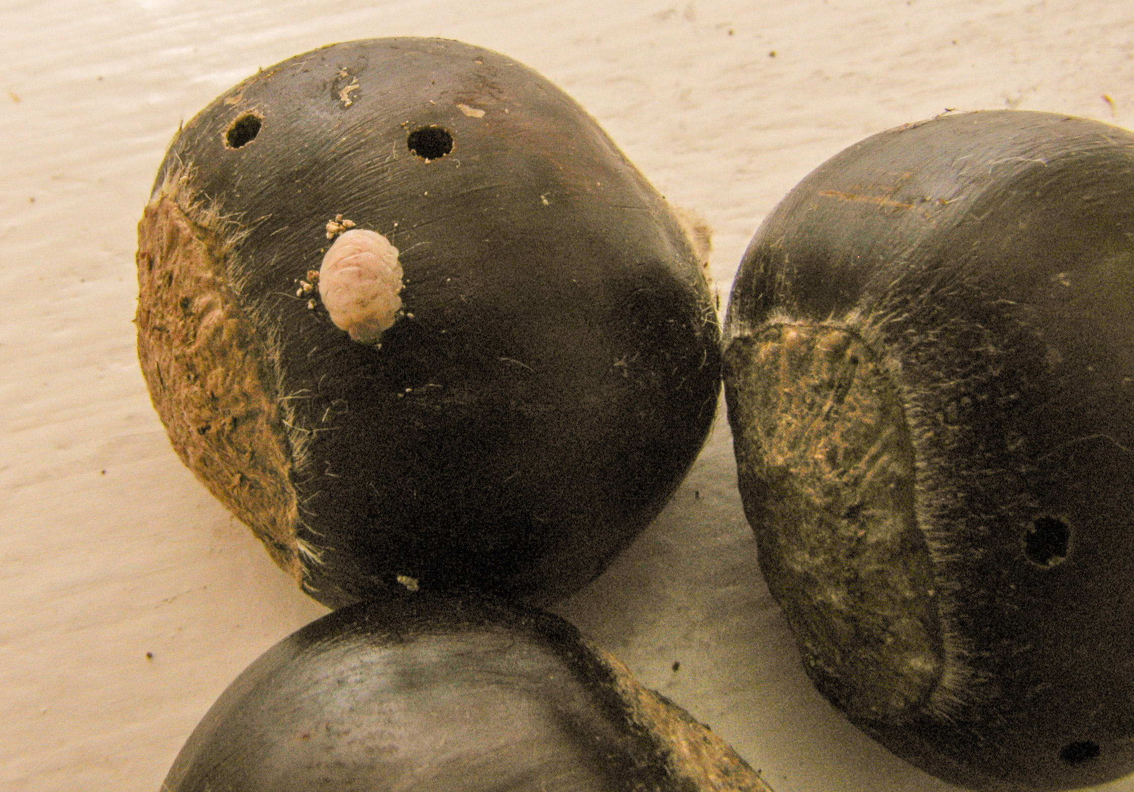 Fully grown larva of acorn weevil (Curculio) emerging from acorn of Chinese chestnut. 10/2/09. Pennypack Restoration Trust, Montgomery County, Pennsylvania, USA.